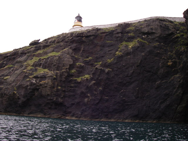 Underneath Uisinis Light. Underneath Uisinis Lighthouse off Creag Dhughaill on South Uist.